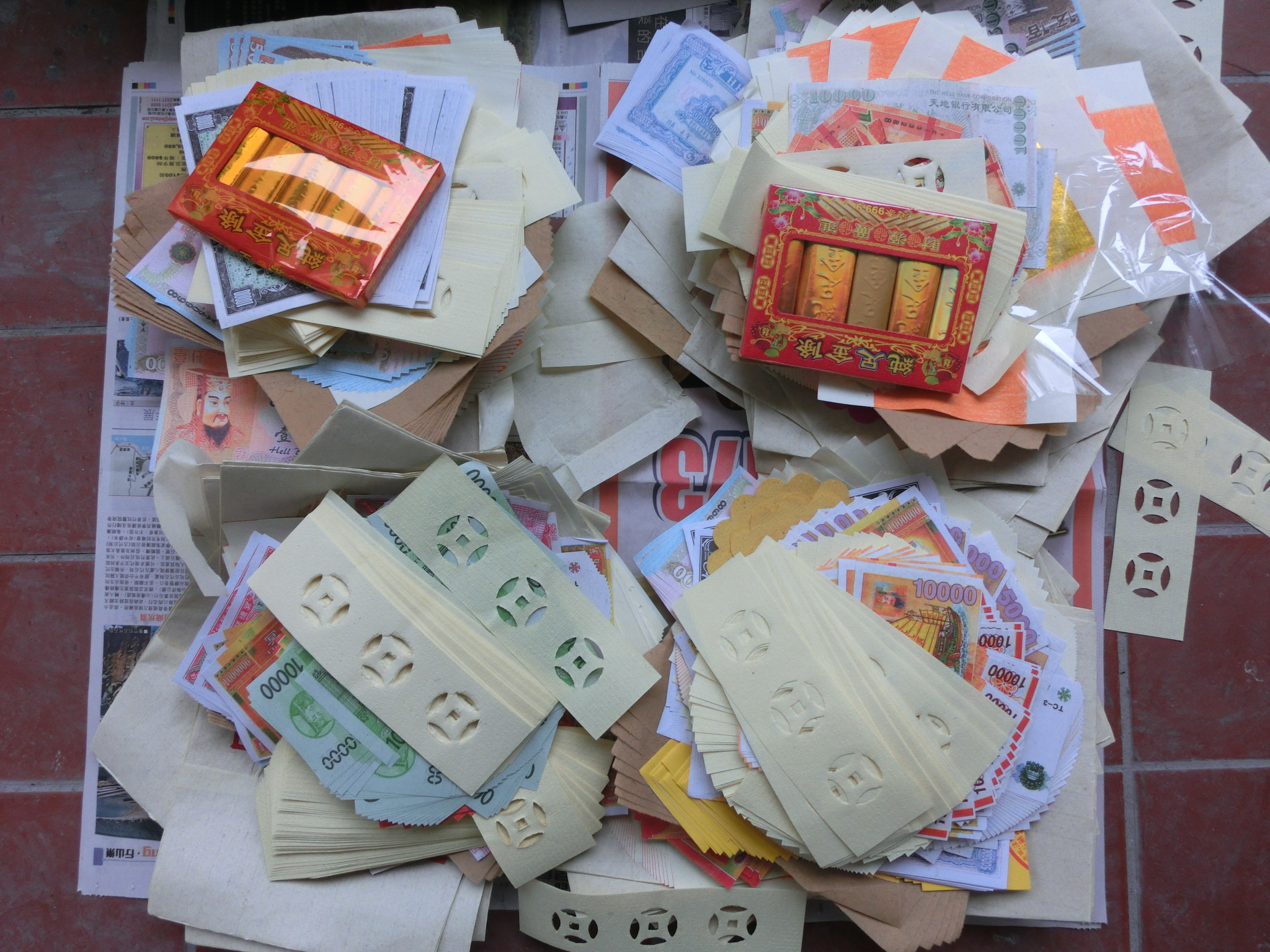 冥鏹